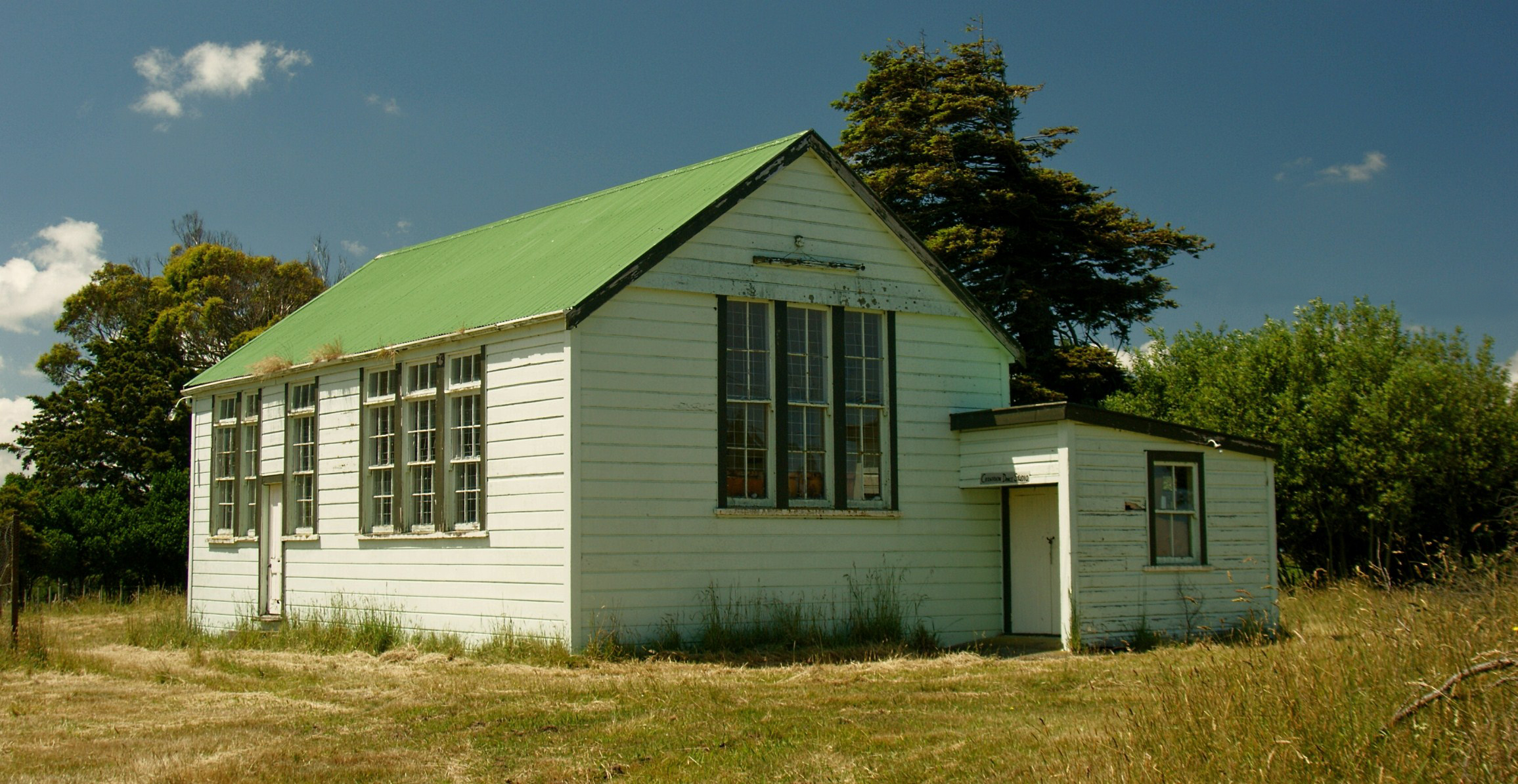 Carnarvon Hall, SH1 north of Himatangi crossroads